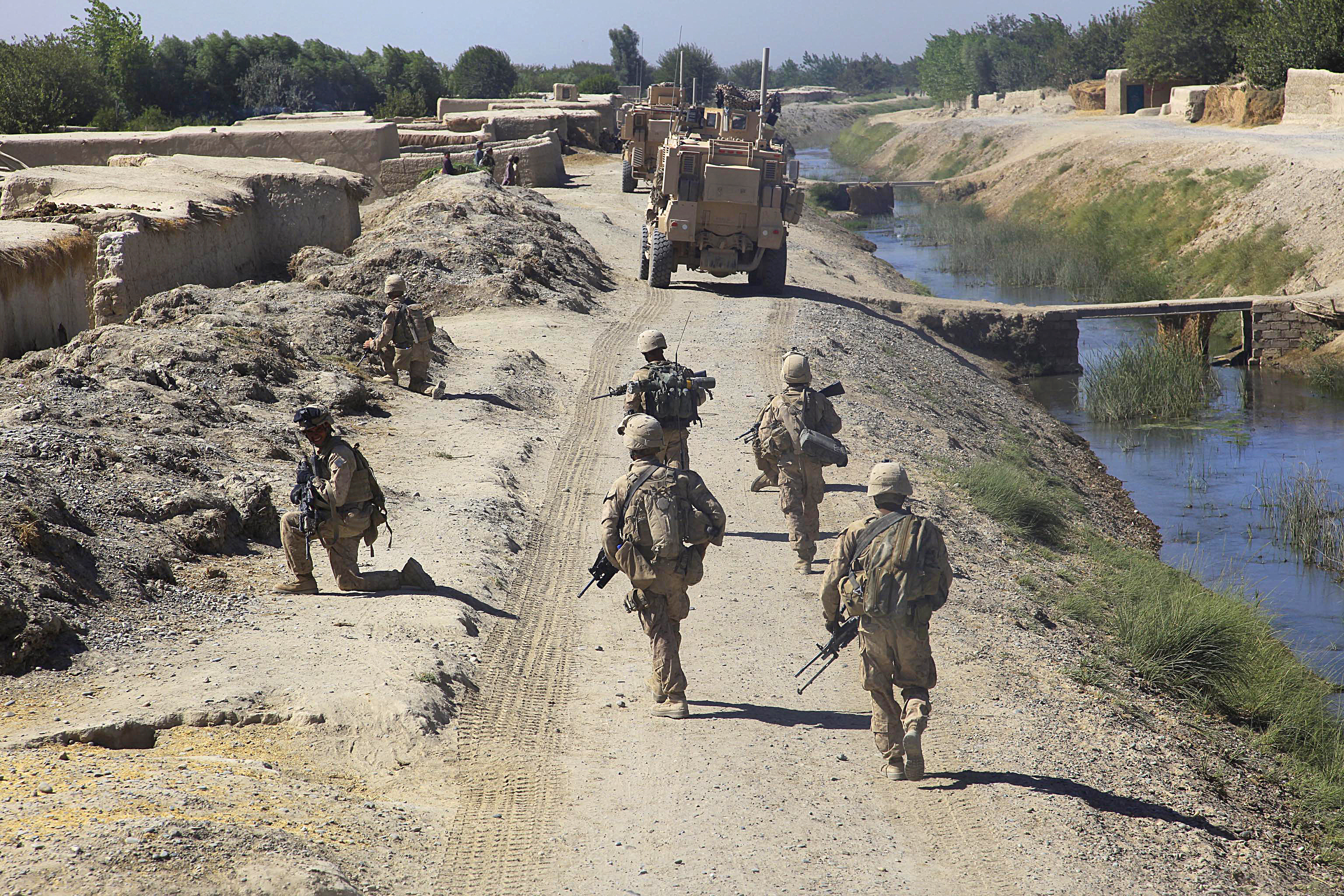 U.S. Marines conduct a security patrol in the Nawa district in Helmand province, Afghanistan Aug. 7, 2009. The Marines are assigned to Bravo Company, 1st Battalion, 5th Marine Regiment. U.S. Marine Corps photo by Cpl. Artur Shvartsberg